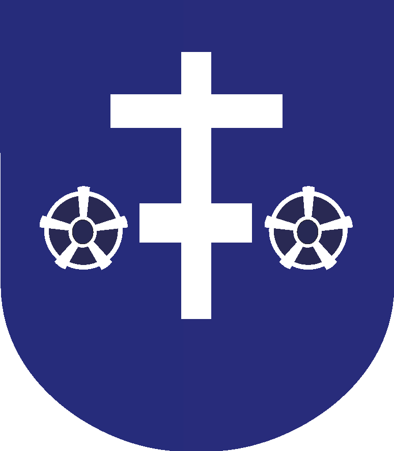 Coat of arms of Smizany